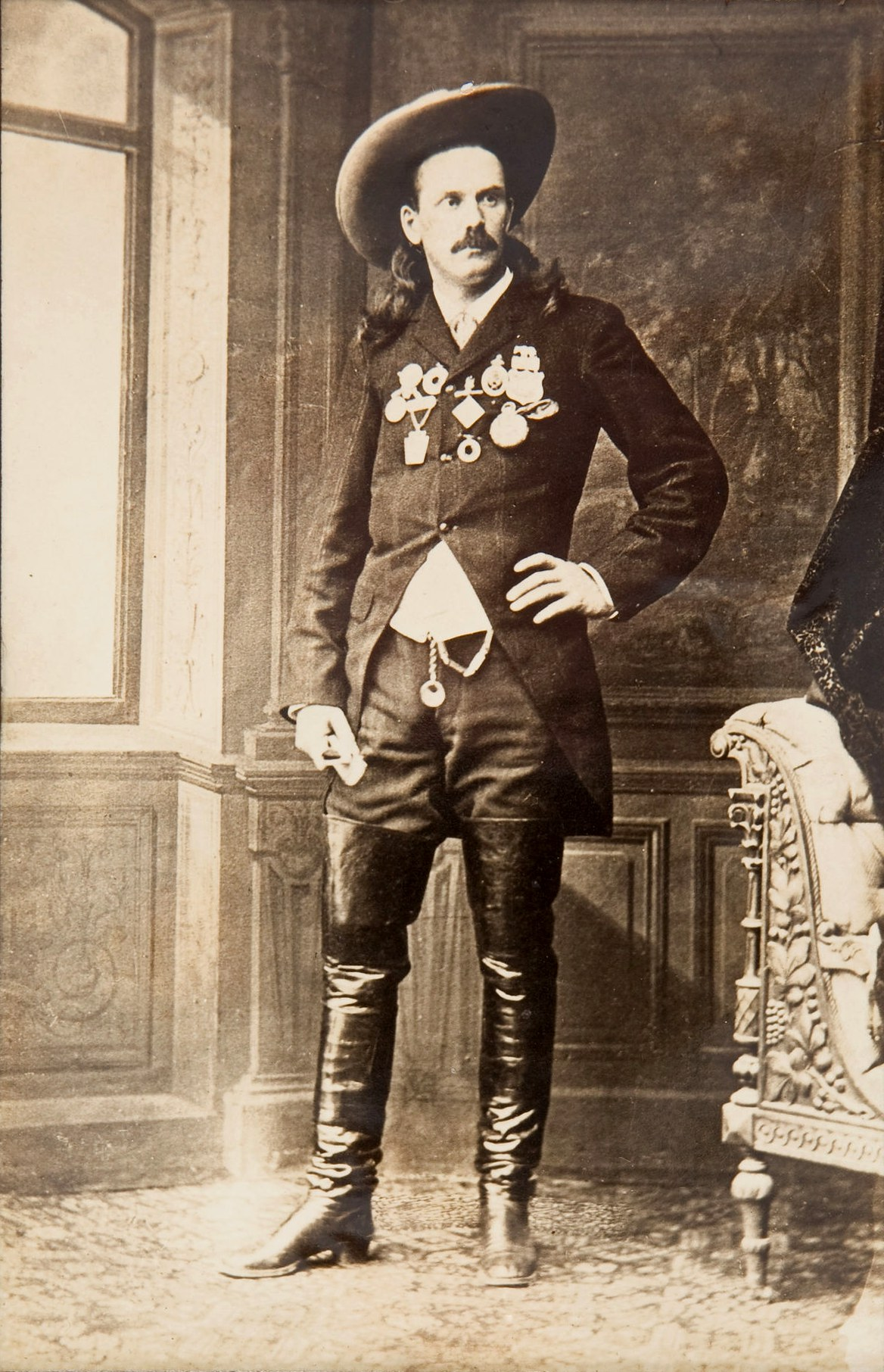 "Doc" Carver in Louisville displaying his sharpshooting medals